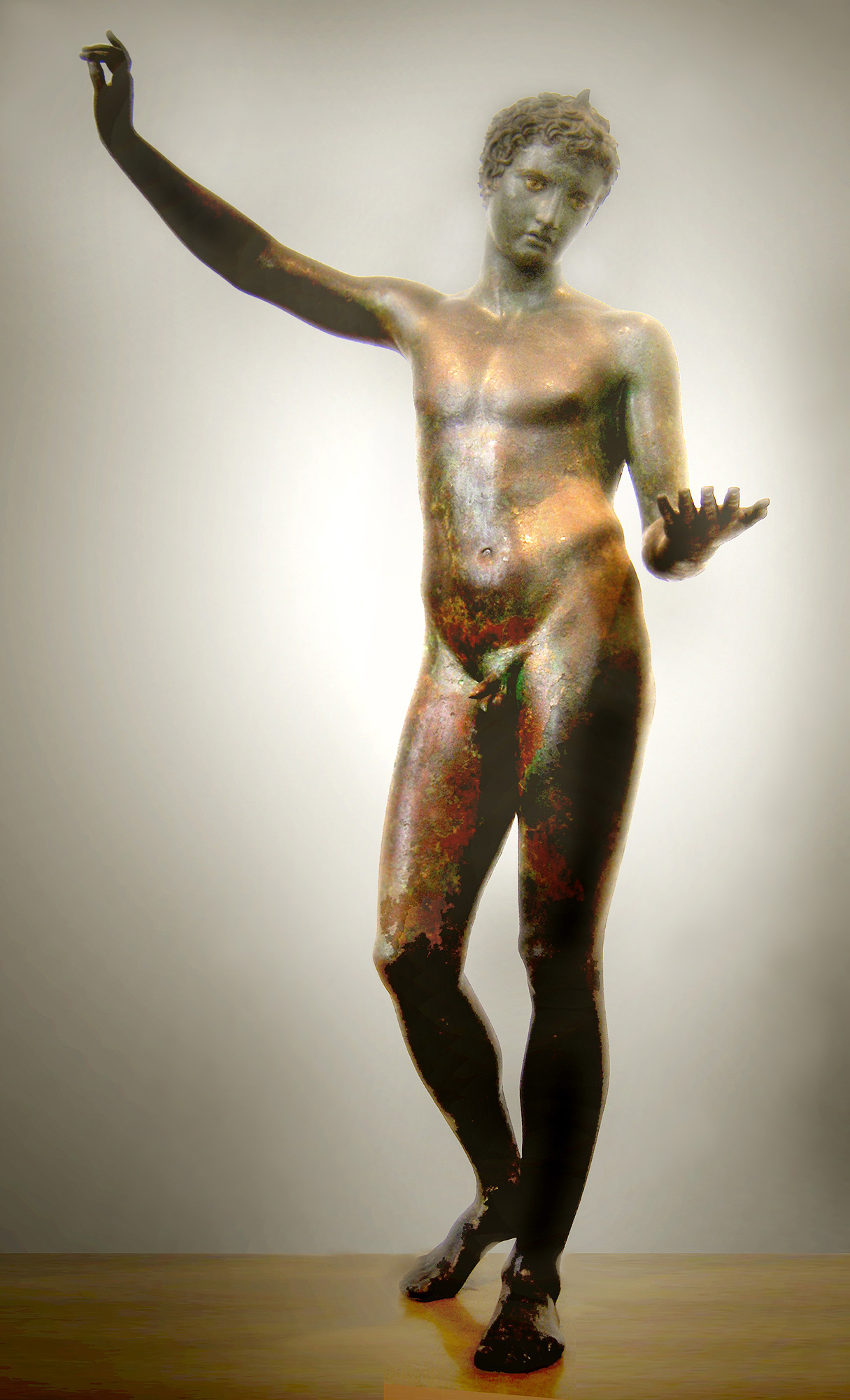 Marathon Boy, National Archaeological Museum of Athens